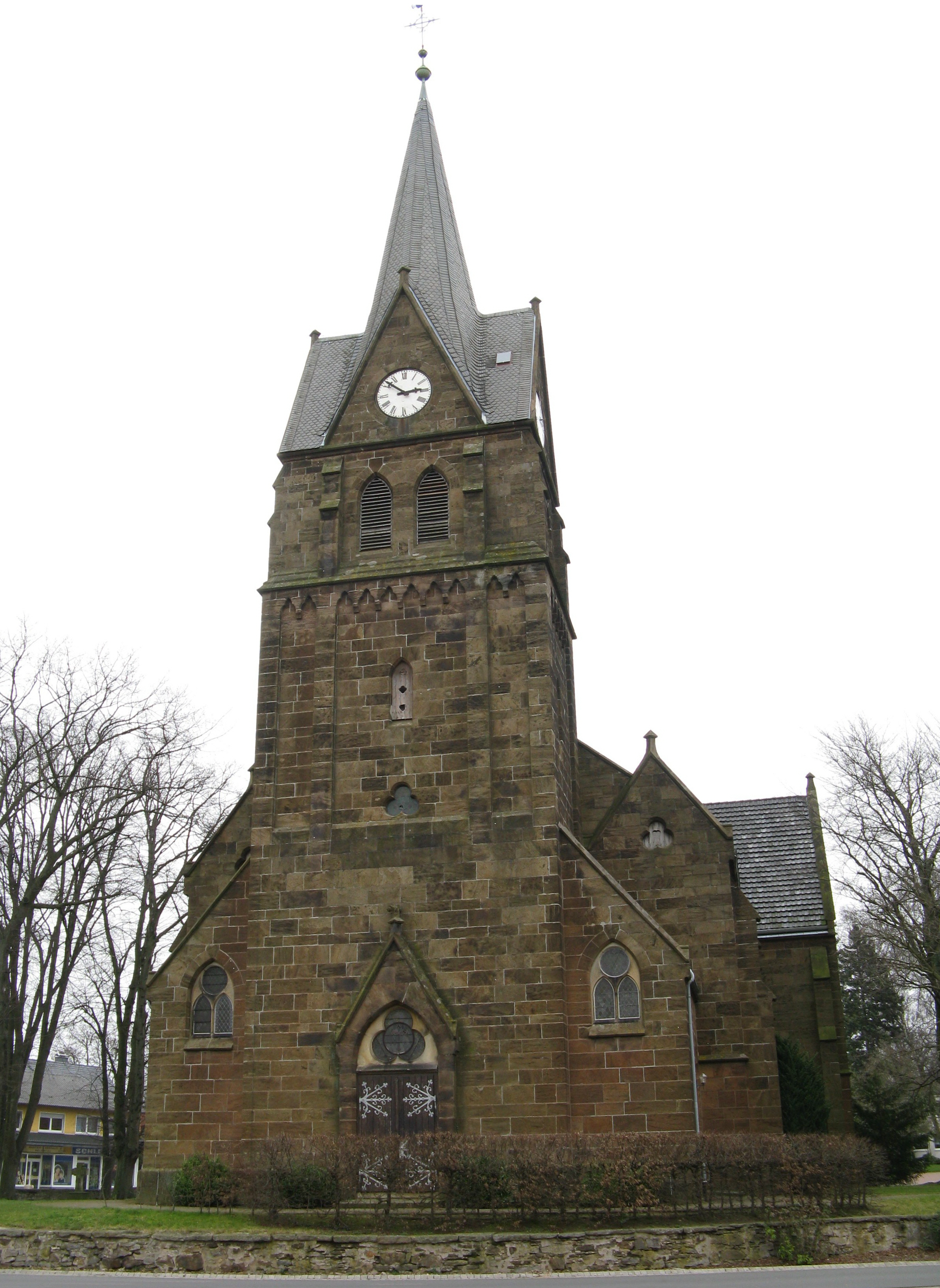 Church Hartum in Petershagen, Minden-Lübbecke, North Rhine-Westphalia, Germany.